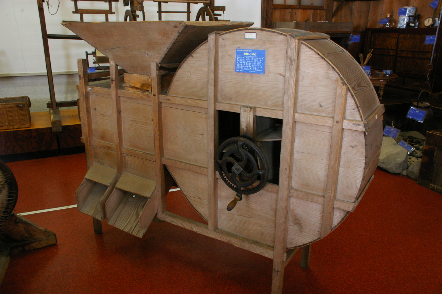 Toumi, a winnowing machine, displayed at the Obira Town Local History Museum, Hokkaido, Japan